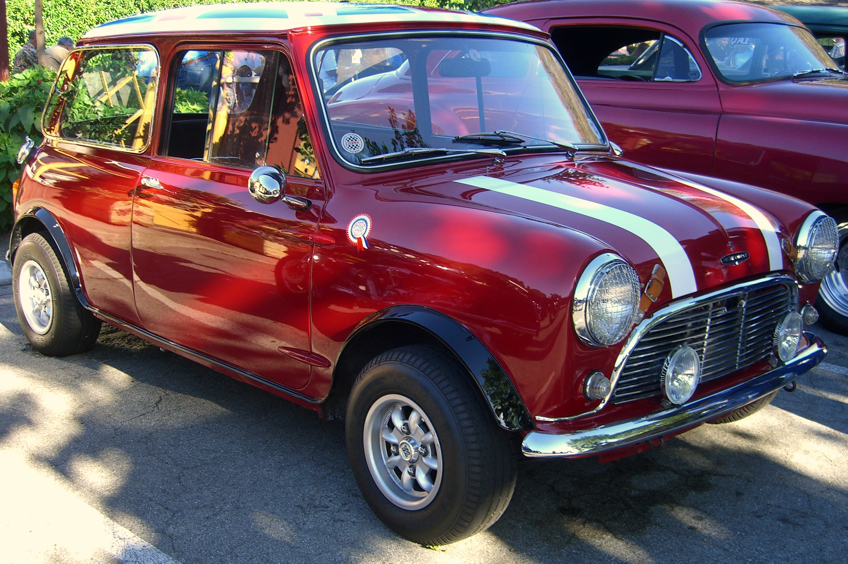 1963 Austin Mini Cooper S. 1275 cc bored to 1308. 123 bhp (claimed).